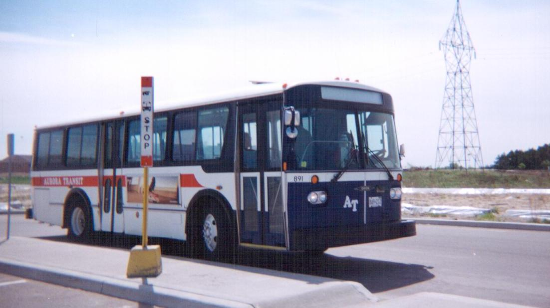 Aurora Transit 30' Orion I (Fleet #891) at Bayview Shopping Centre